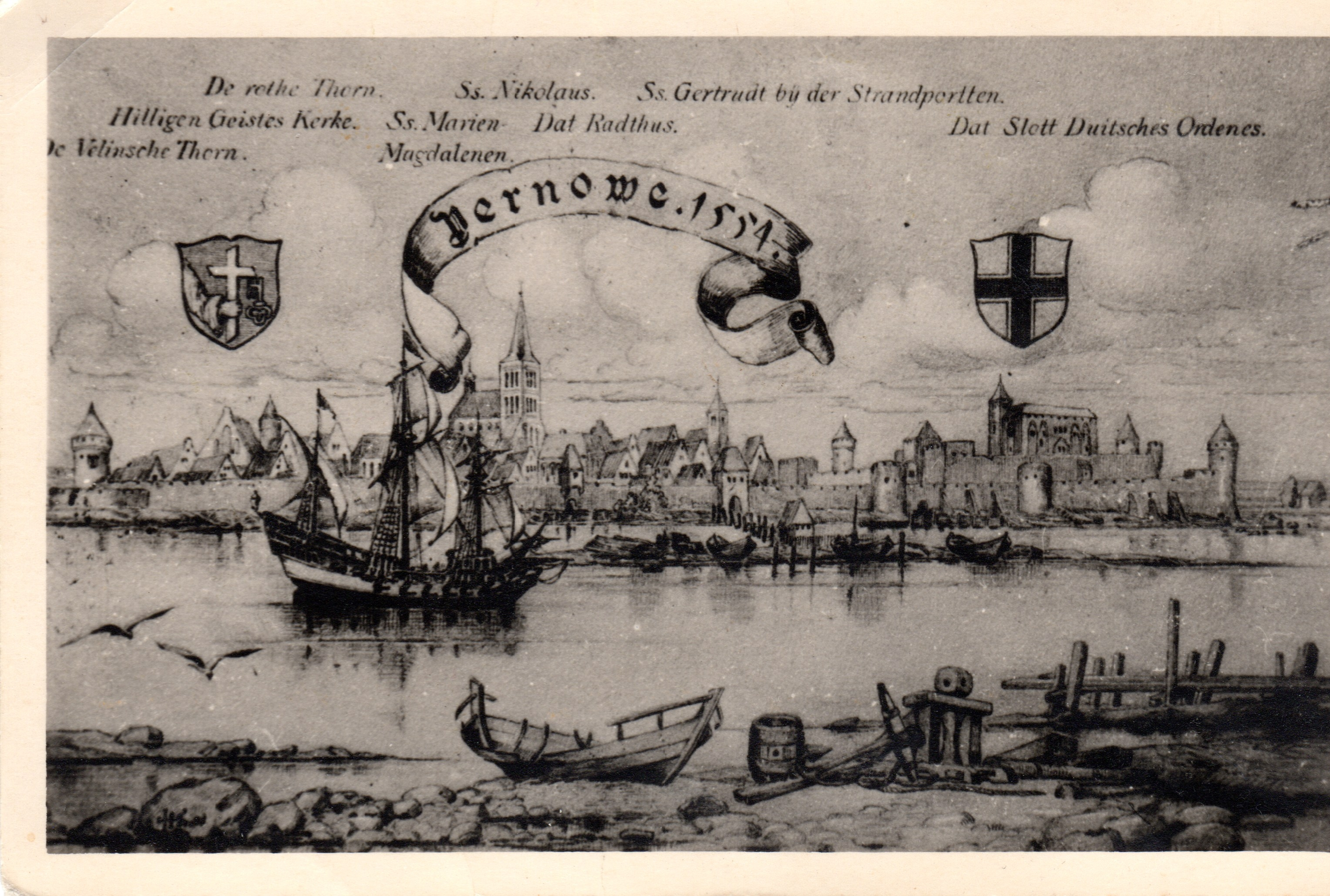 Drawing of the town of Pärnu (then Pernau)